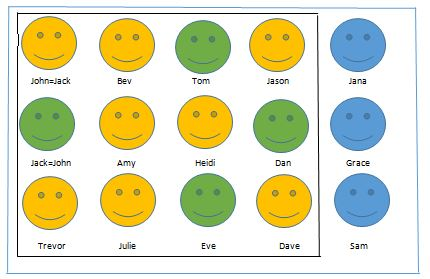 Graphical demonstration of concept of coverage error.